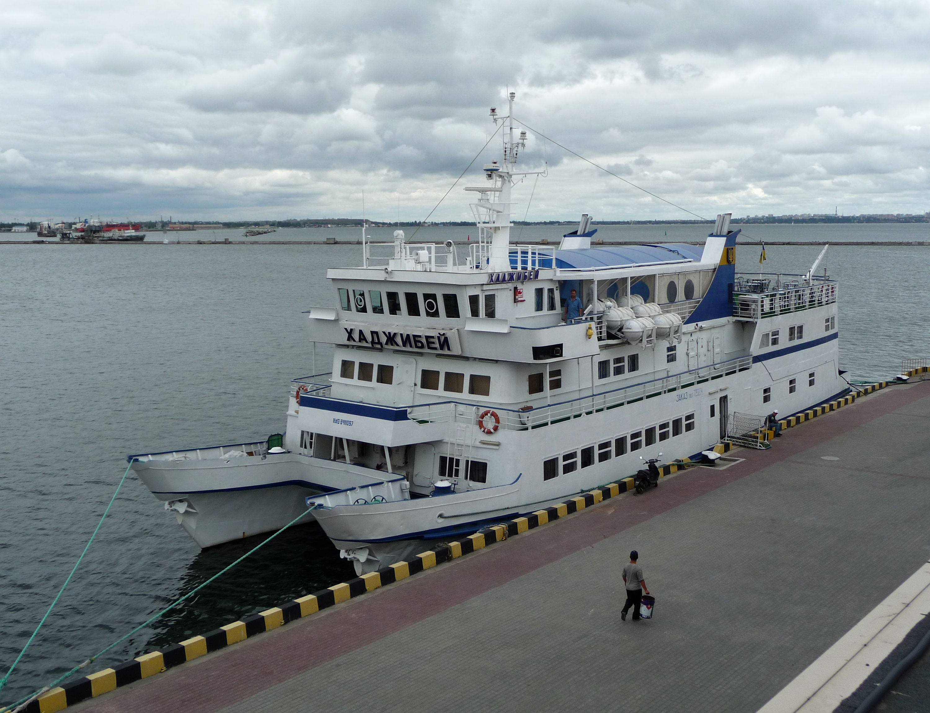 Passenger ship catamaran "Khadzhibey". IMO 8411097. Length: 38.0m, Beam: 11.0m, currently promenade motor ship. Odessa, Ukraine.